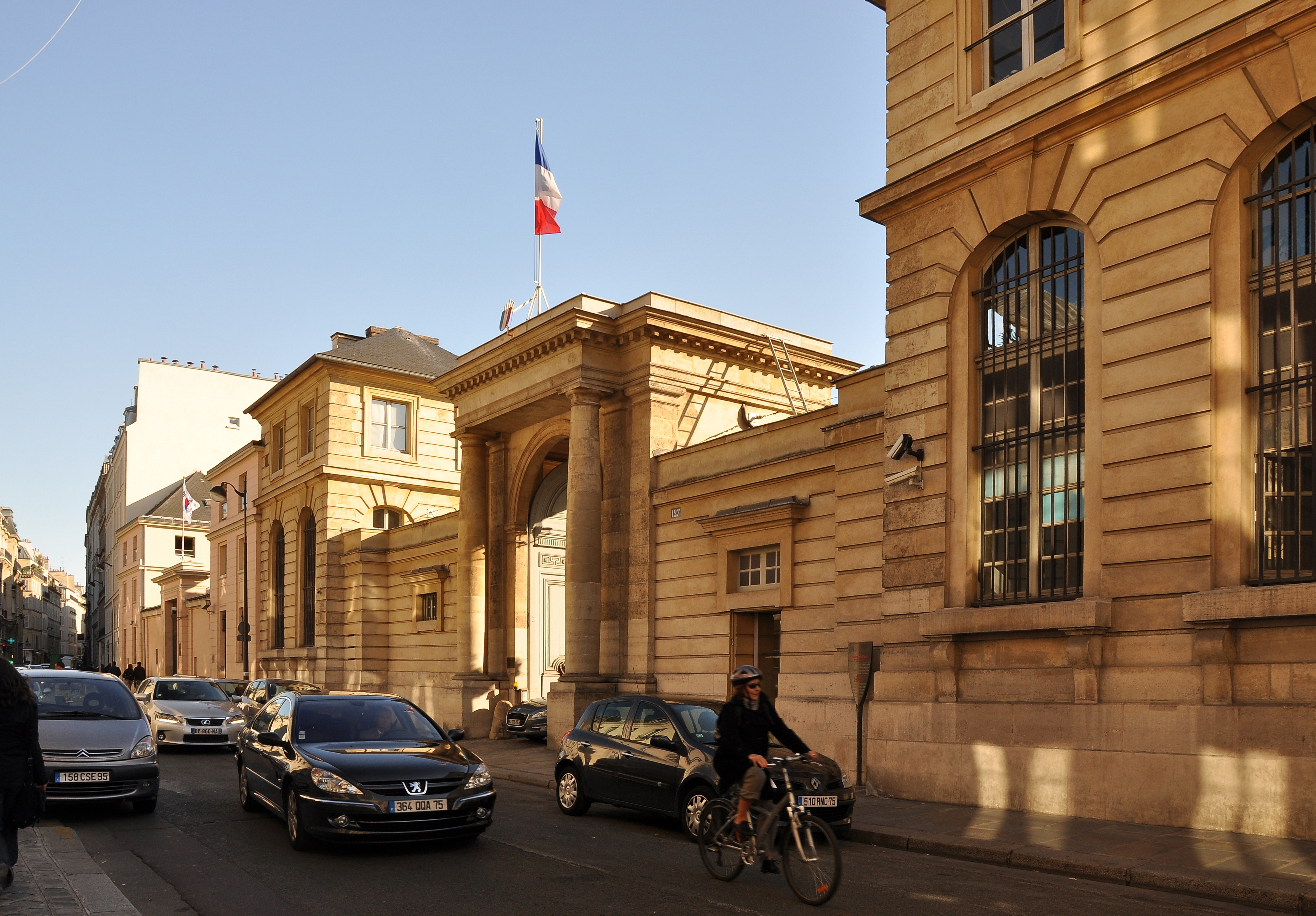 Hôtel du Châtelet located at 127, rue de Grenelle, in the 7th arrondissement of Paris, Built by architect Mathurin Cherpitel in 1770.